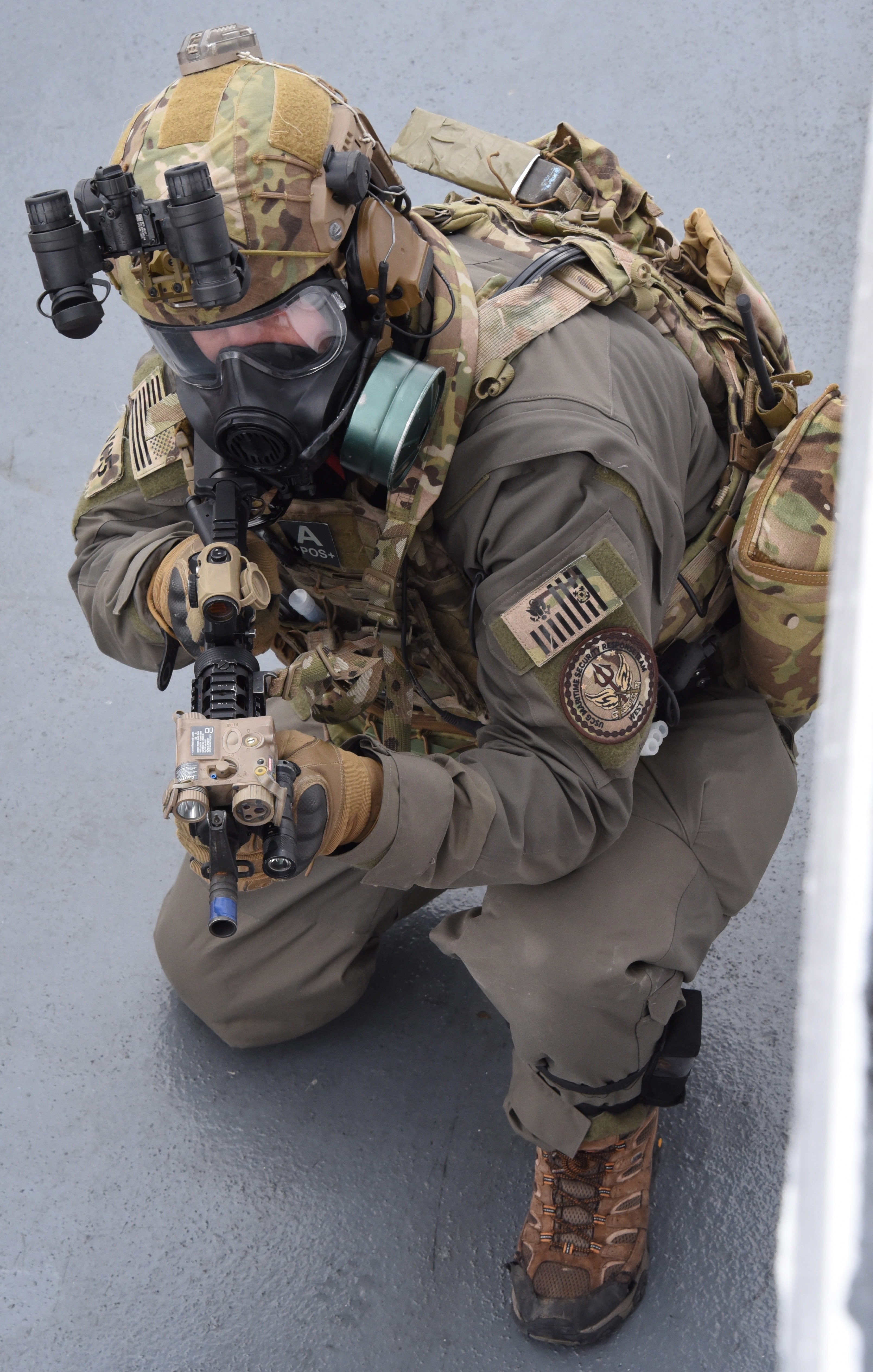 A member of Coast Guard Maritime Security Response Team West trains for a simulated terrorist threat aboard the motor vessel Aurora while in transit from Cordova to Whittier, Alaska, April 10, 2019. Alaska's cold weather and constantly varying climate provided the ideal training environment for all local, state and Federal entities involved. U.S. Coast Guard photo by Petty Officer 3rd Class Lauren Dean.